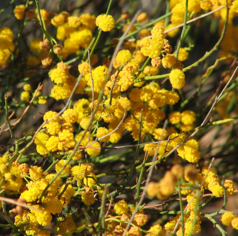 Acacia restiacea (cultivated labelled) Maranoa Gardens, Balwyn, Victoria, Australia